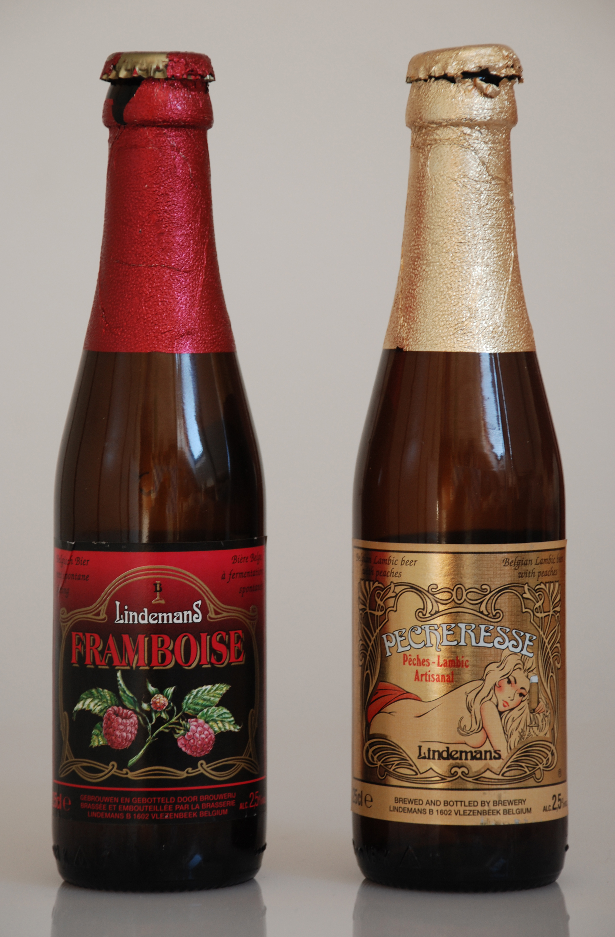 Empty 25cl beer bottles from Lindemans Brewery, from left: Framboise and Pêcheresse.